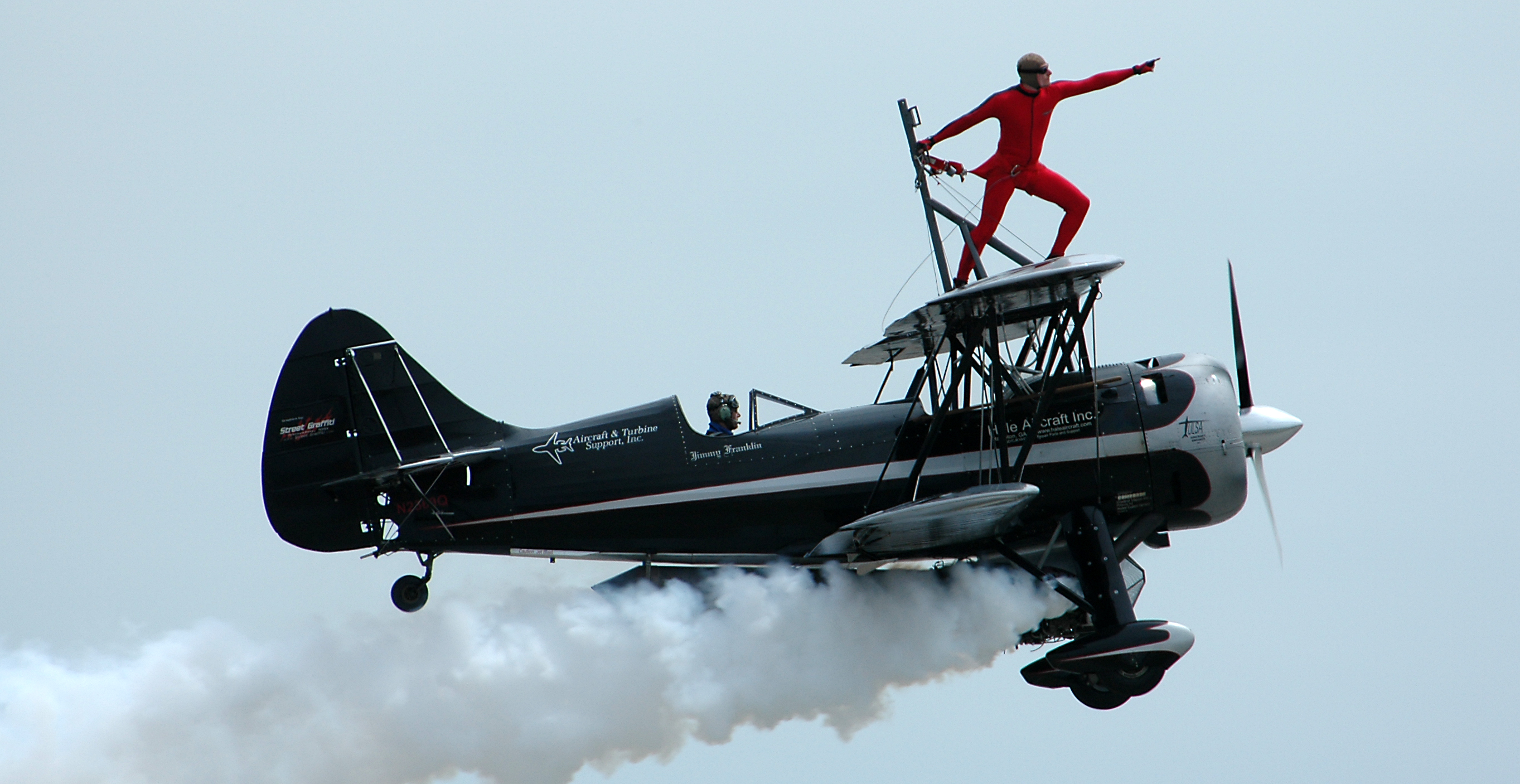 Airshow; Kyle Franklin strikes a pose during his wing walking routine on the top wing of a jet-powered Waco bi-plane, flown by his father, Jimmy Franklin, during the 2005 Coastal Carolina Air Show in Wilmington, N.C. The 1940 Waco bi-plane is fitted with a T-38 Talon J-85 jet engine along with the 450 horsepower Pratt & Whitney radial prop engine. With both engines turning the Jet Waco puts out over 4,500 pounds of thrust at over 2,000 horsepower. This year's air show showcased civilian and military aircraft from the Nation's armed forces, which provided many flight demonstrations and static displays. U.S. Navy photo by Photographer’s Mate 2nd Class Daniel J. McLain (RELEASED)